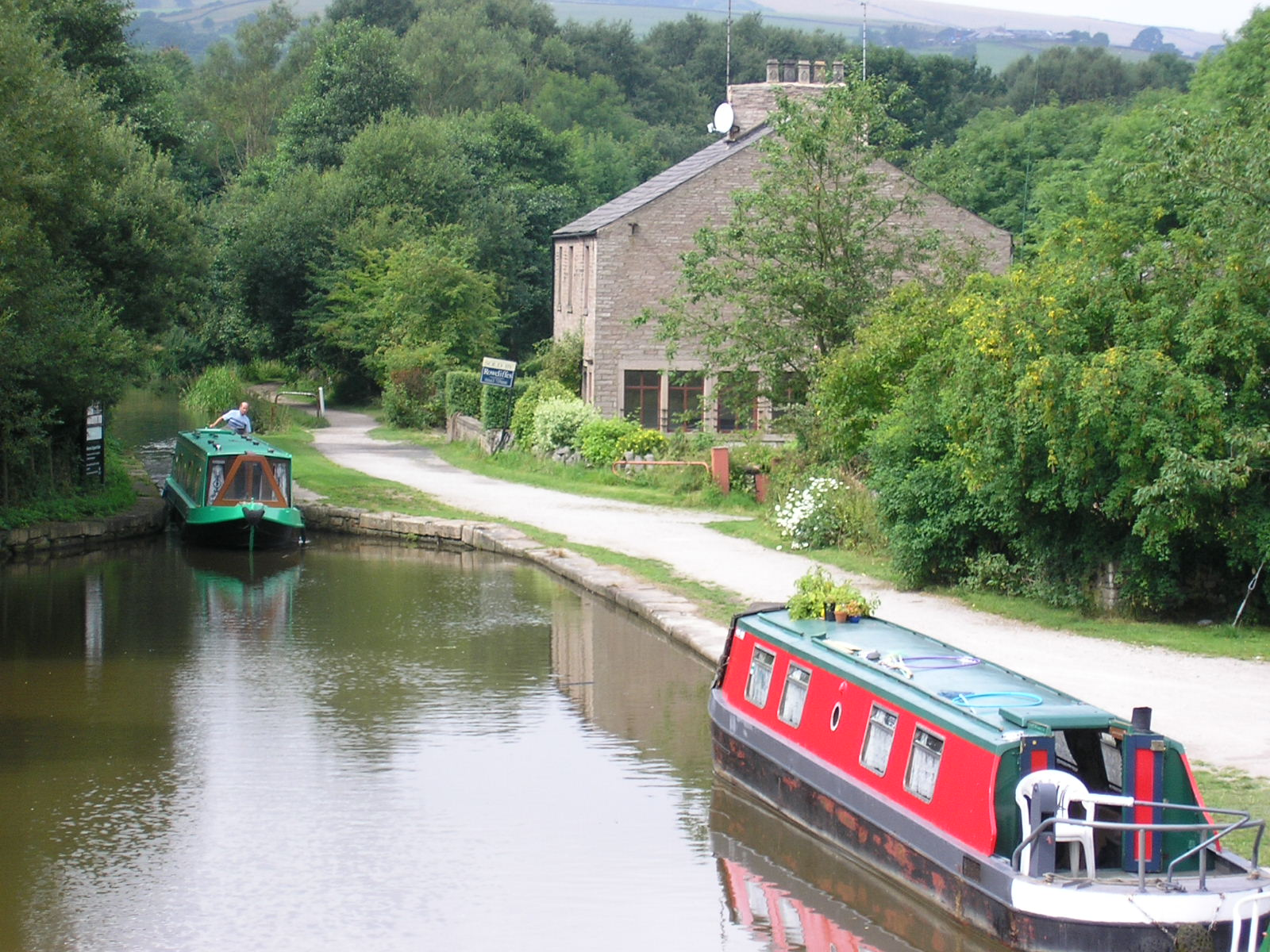 Boats entered and left the Bugsworth complex, Buxworth, Derbyshire via this entrance basin The Wharfinger's (or Canal House) on the right was built in or about 1797 as a house and office for German Wheatcroft, the first Wharfinger (or Basin Manager) at Bugsworth. An adjacent building was built as a stable for his horse. A loaded barge was not allowed out through the Gauging Stop Place outside the office until it had been assessed or 'gauged'. This was necessary to measure the weight and hence the value of the boat's cargo. This in turn determined the tolls paid by the boat on the canal. The displacement of the boat was measured at four known points and an average reading taken. This reading together with details of the cargo, distance to be travelled and the gauge plate number was compared with special tables in the office. A permit was then issued and the boat could leave. :The above text adapted from an interpretation board at the site.